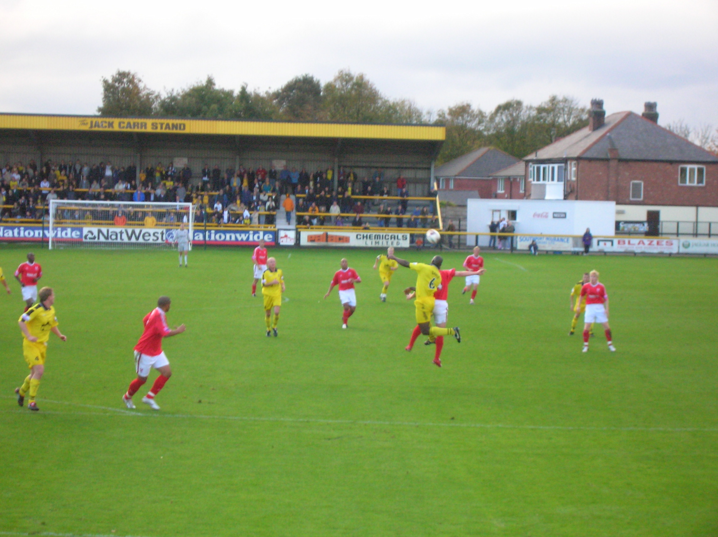 Taken at Southport vs Harriers, 22/10/2005